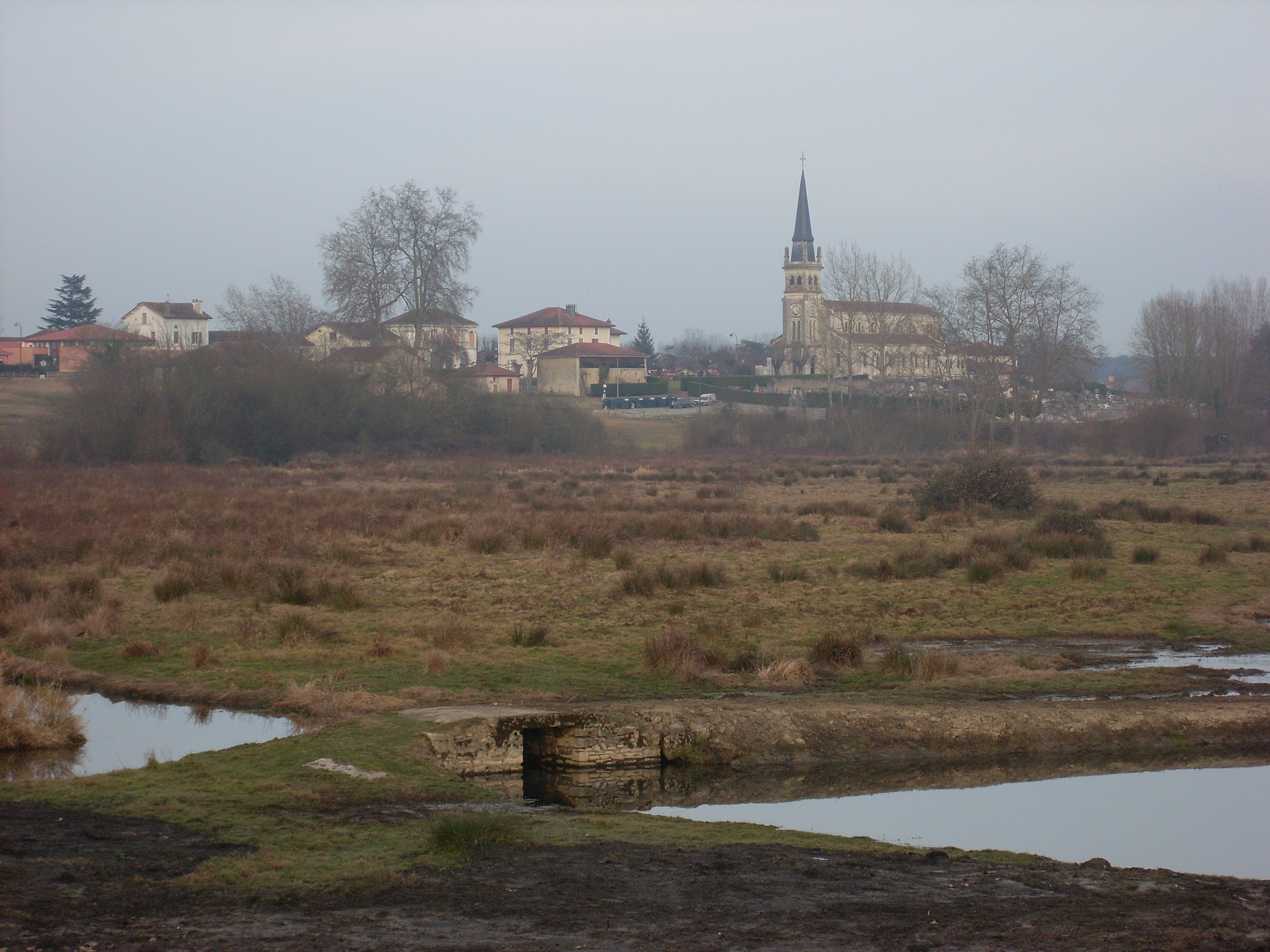 Barthes of the Adour river - Saint Vincent de Paul - France